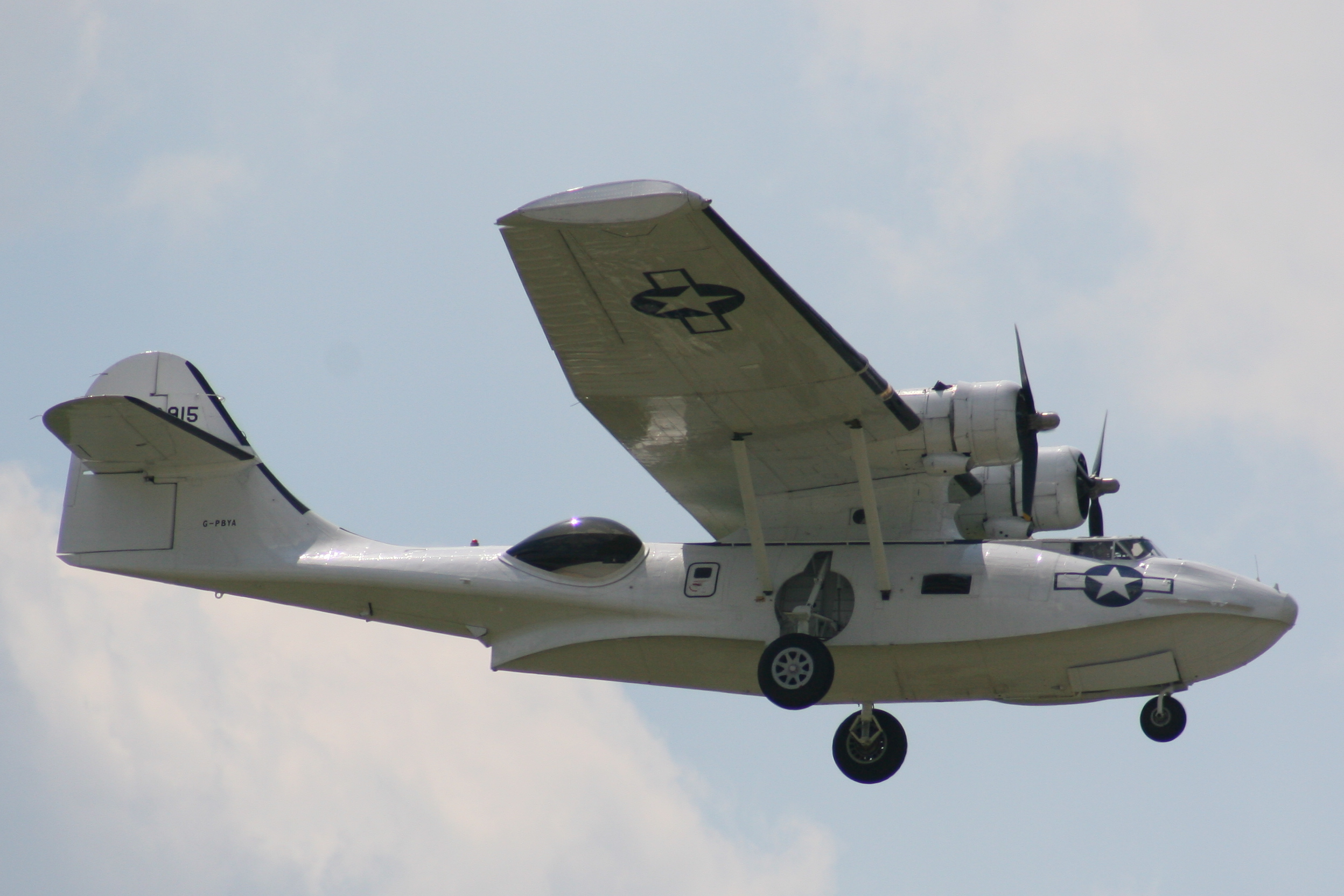 Consolidated PBY Catalina (reg. number G-PBYA) at Open Day 2009, AFB Čáslav (LKCV), Chotusice, The Czech Republic